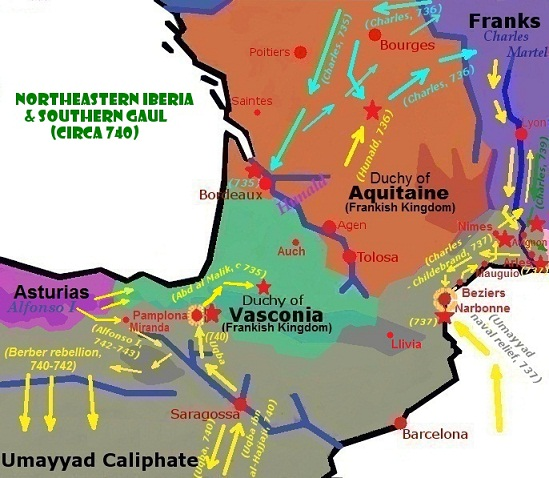 Northeastern Iberia and southern Gaul around the Pyrenees in year 740, military campaigns and geopolitical situationEuskara: Iberiako ipar-ekialdea eta Galiako hegoaldea Pirinioen inguruan 740 urtea, kanpaina militarrak eta egoera geopolitikoa